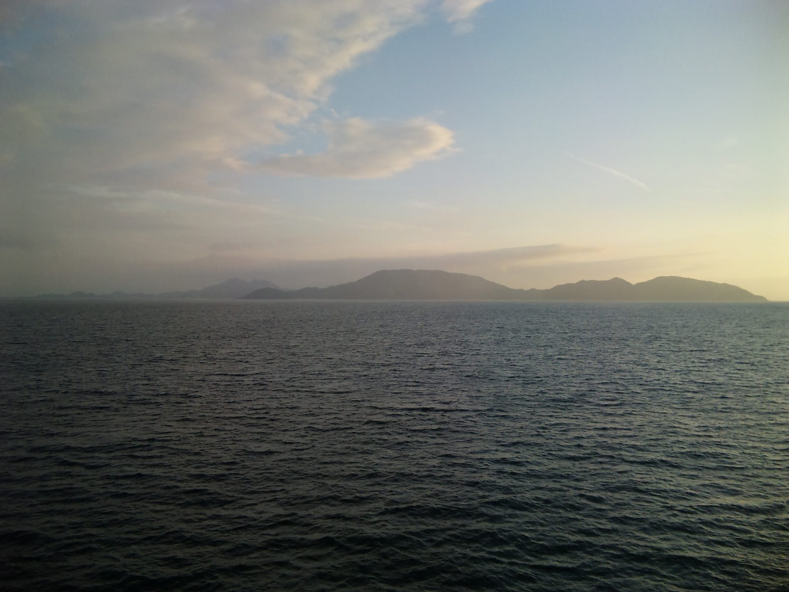 Itosima peninsula from Genkai Sea.